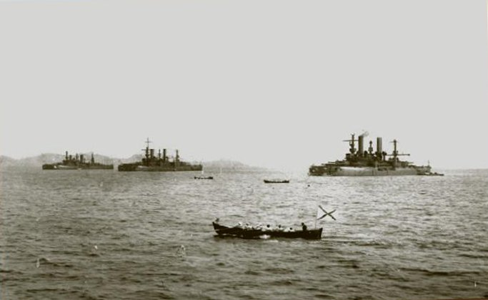 Battleships Petropavlosk, Sevastopol and Poltava.